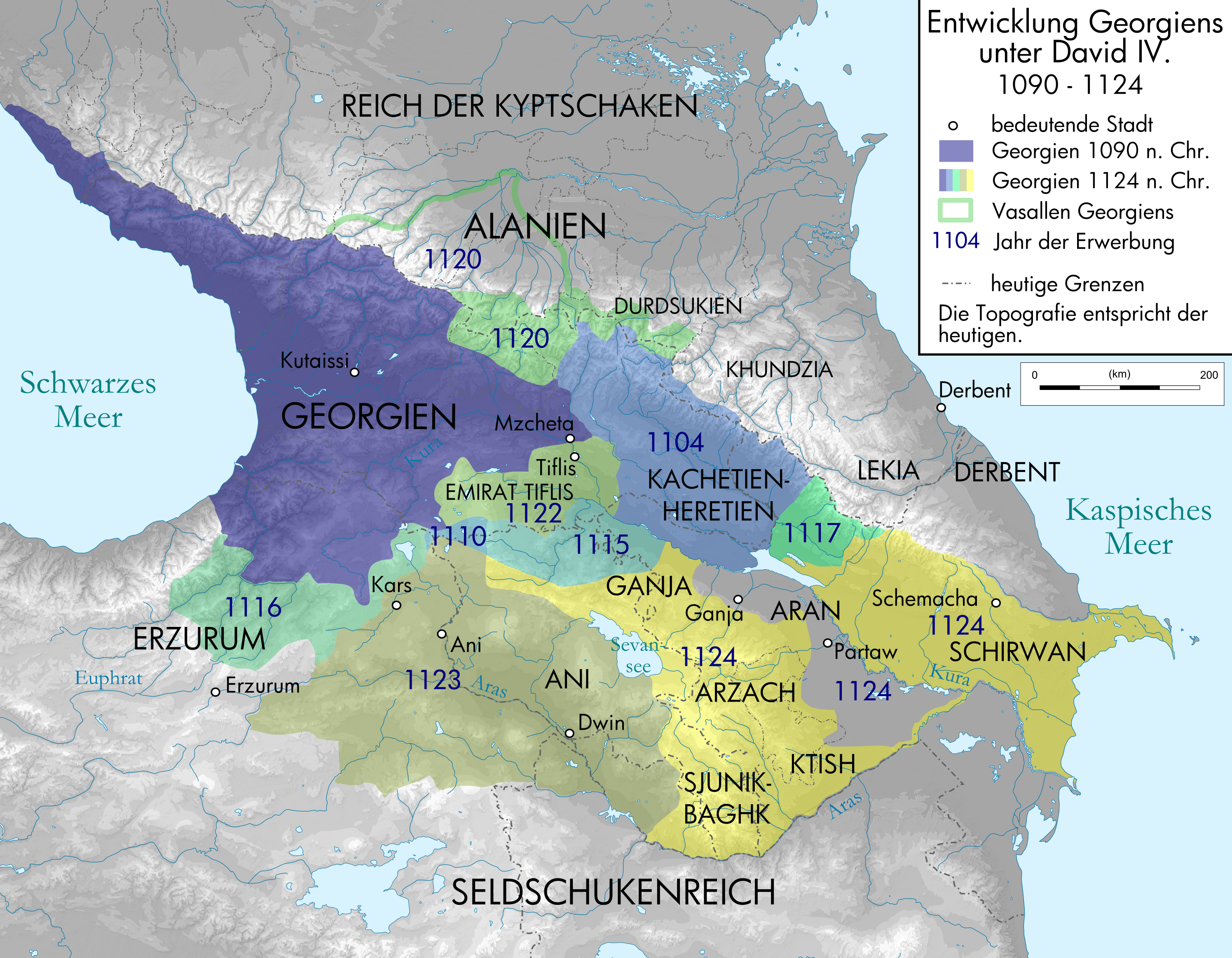 Map of Georgia under David IV. in German